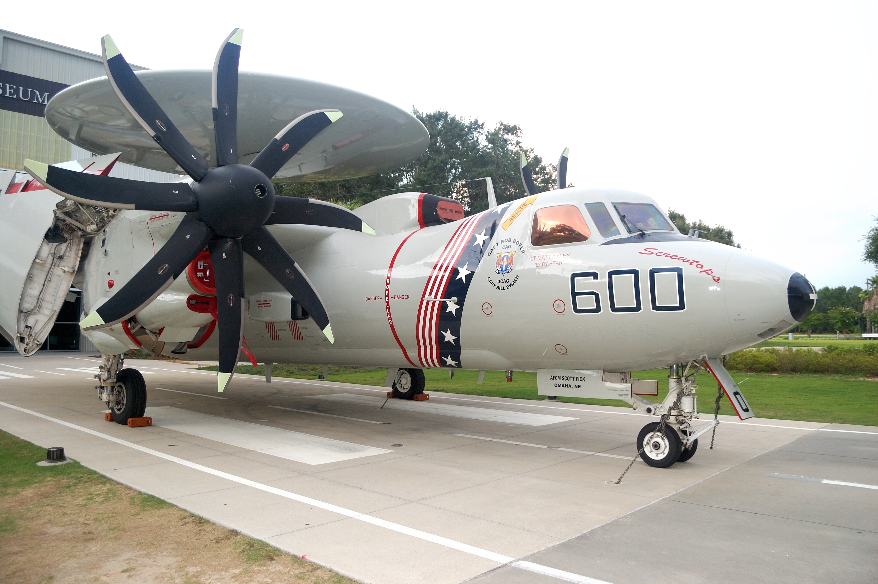 E-2C Hawkeye aircraft of the Carrier Airborne Early Warning Squadron 123 (VAW-123) (also known as Screwtops) of the US Navy.